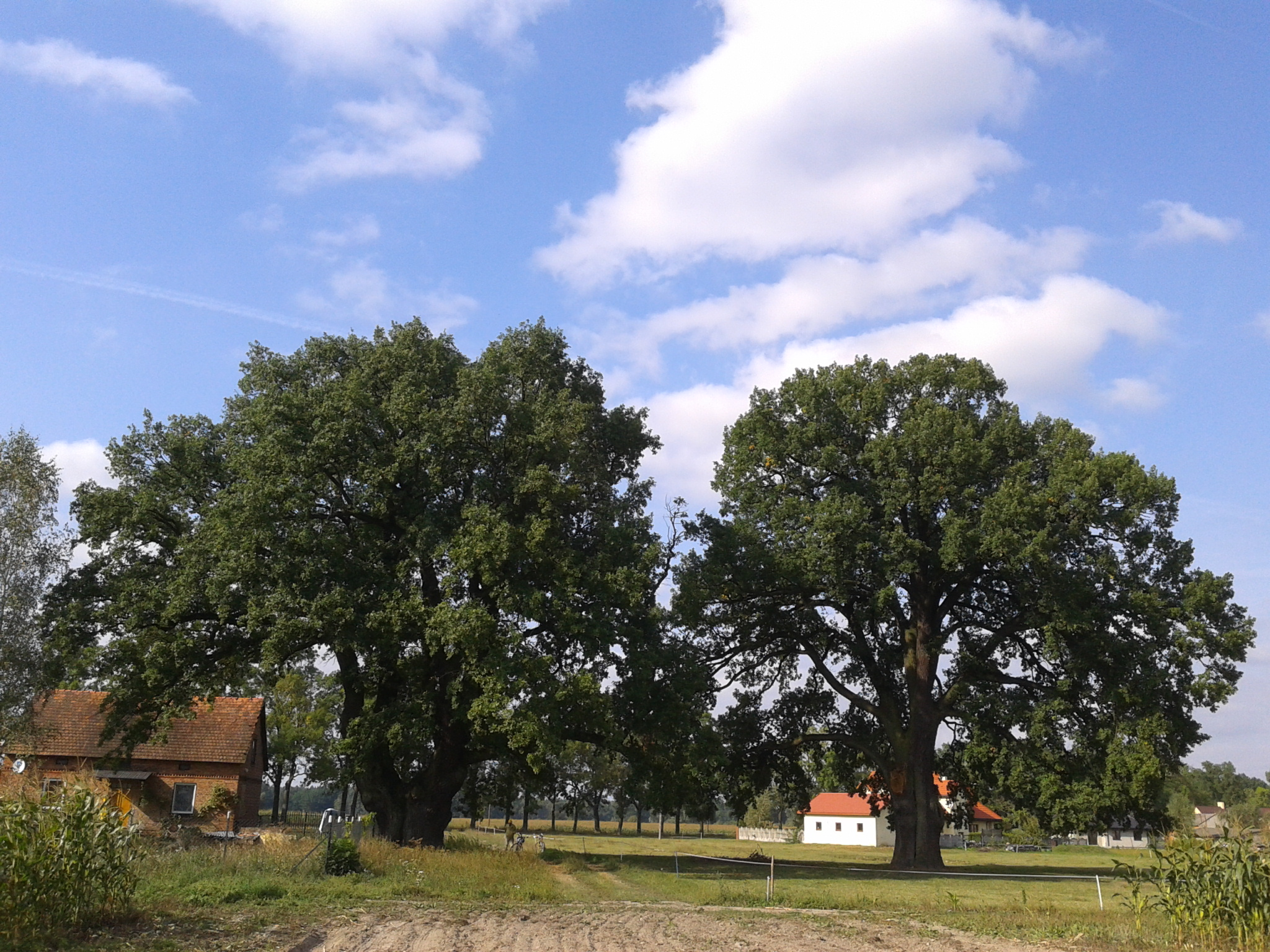 Two aged and monumental English oaks in Bełdów, near Łódź, in Poland.